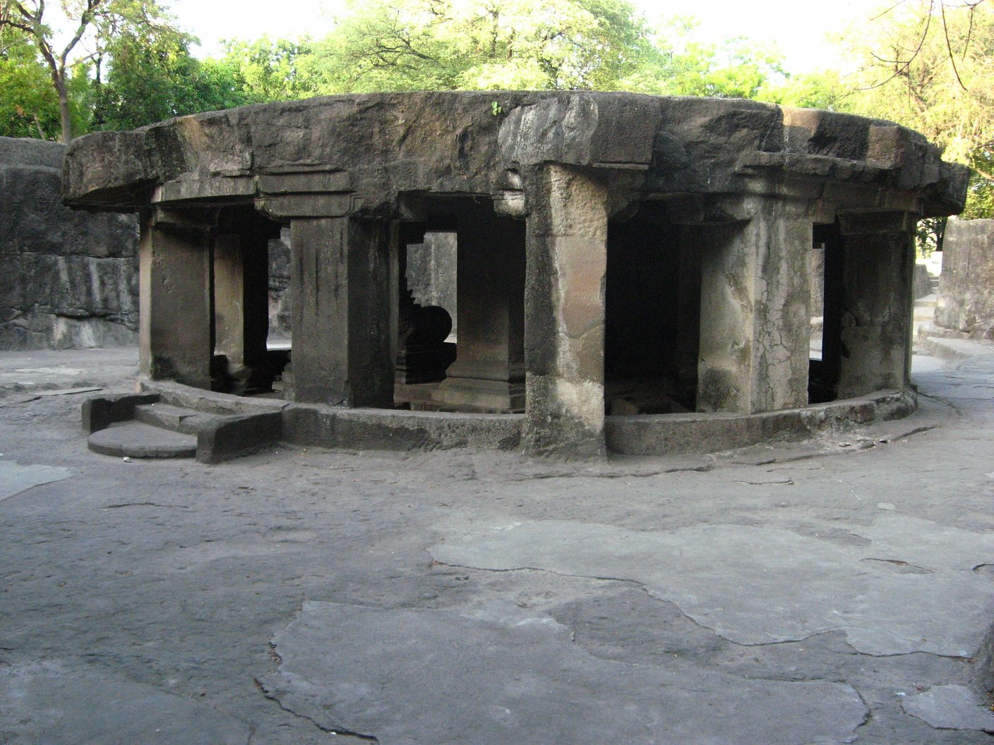 Mukul Hinge, Photograph from personal archives.